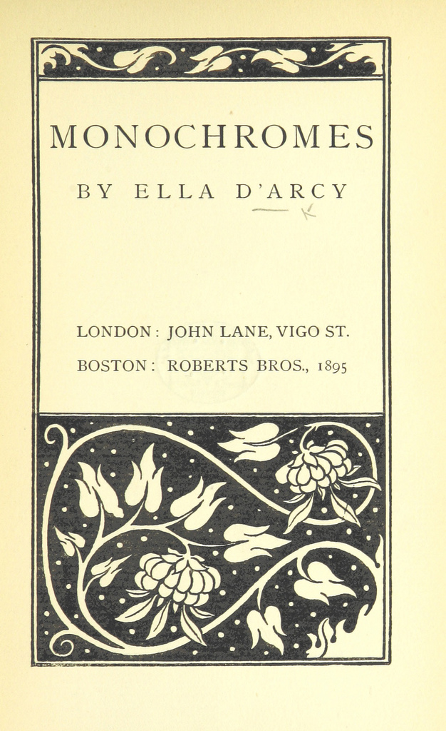 Page 7 of Monochromes